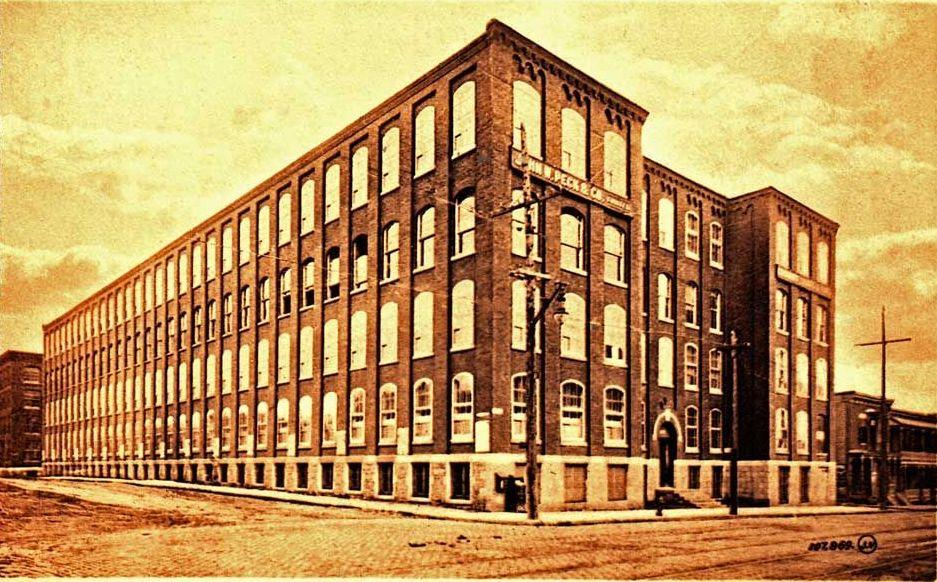 The John W. Peck Shirt and Clothing Factory, Mile End, Montreal